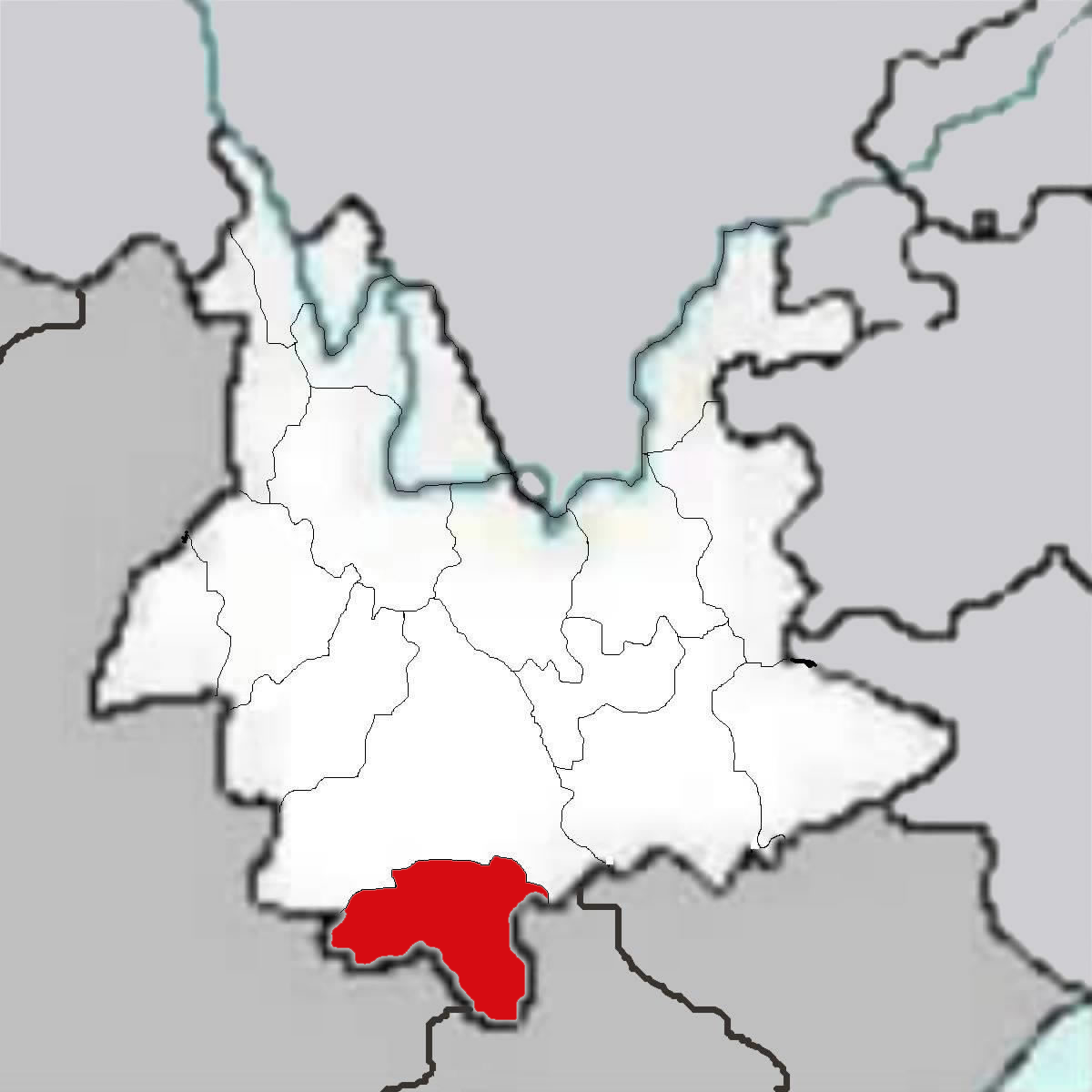 Yunan(云南) Province of China